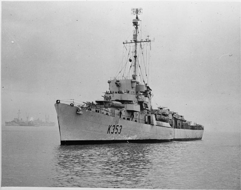 HMS Essington Underway.